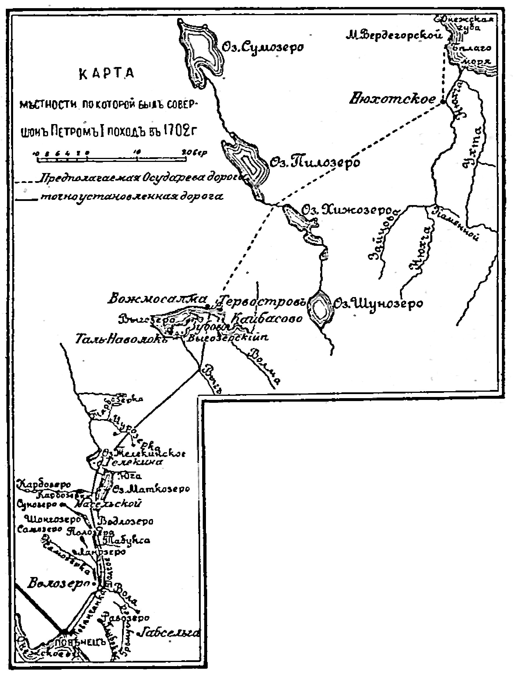 Map of the history of Karelia